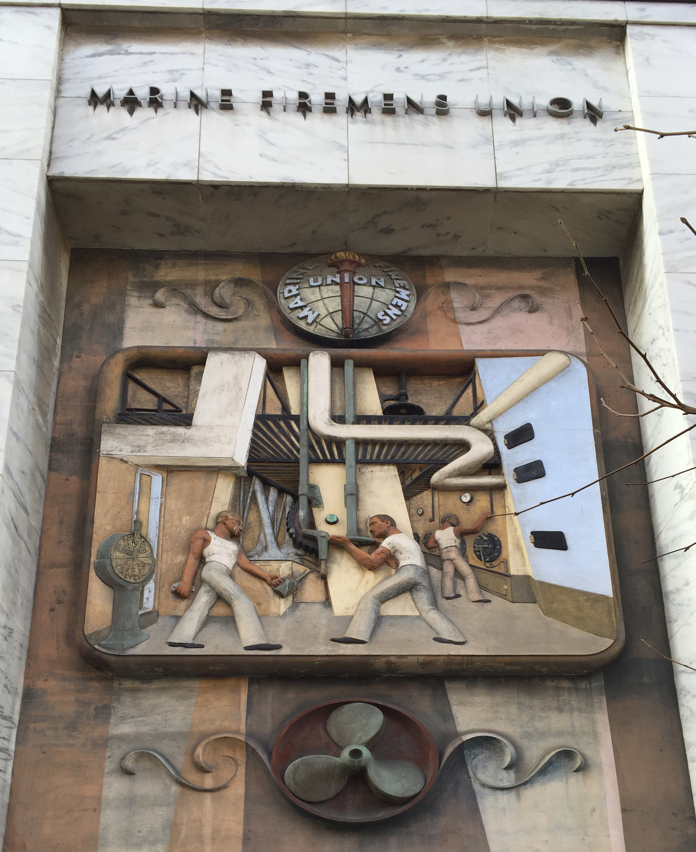 Bas-relief on the union's San Francisco headquarters at 240 2nd Street.